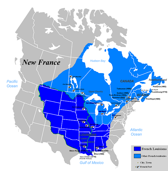 French Louisiana (New-France)